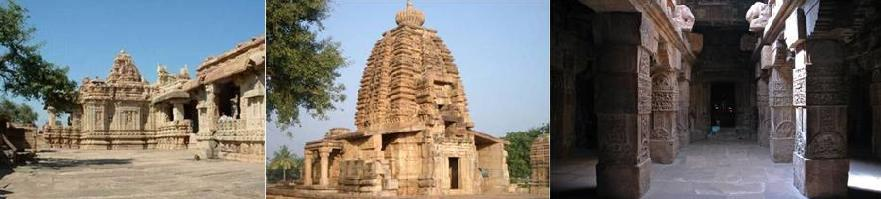 Pattadaka Temples, World Heritage Centre Source and Author : Manjunath Doddamani, Gajendragad / Hubli, Karnataka(North), India.